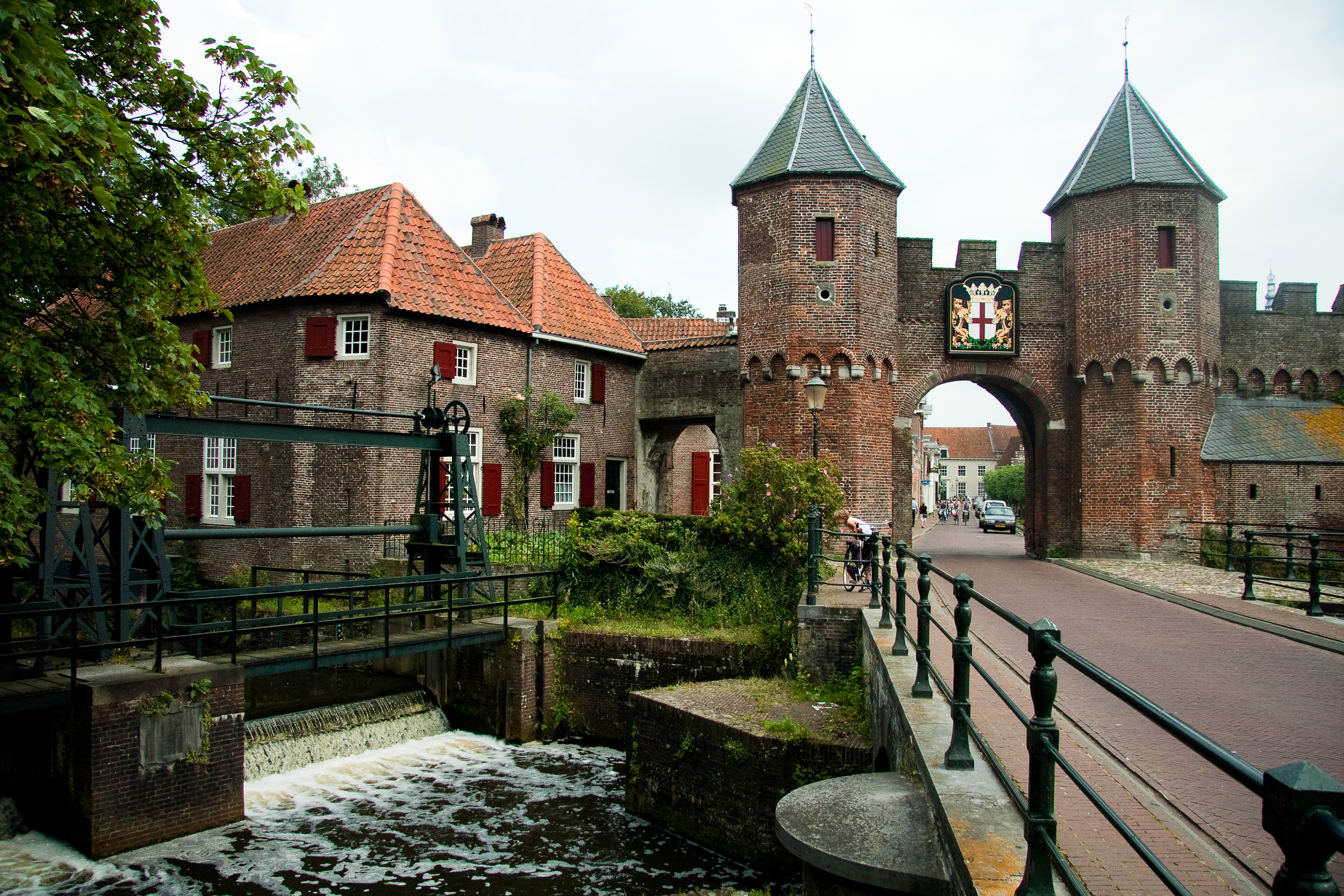 The Koppelpoort is a medieval gate in the Dutch town Amersfoort completed around 1425.